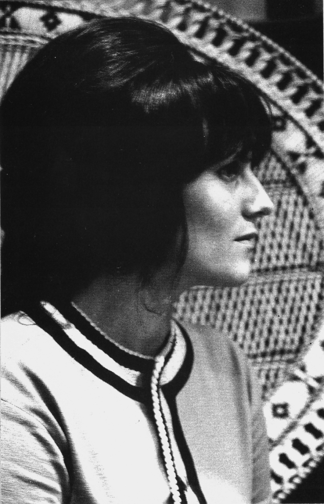 Photograph of the Finnish set and costume designer Anneli Qveflander (1929–).